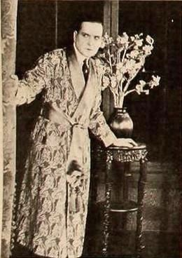 Still from the American film Captain Swift (1920) with Earle Williams, page 3174 of the April 3, 1920 Motion Picture News.